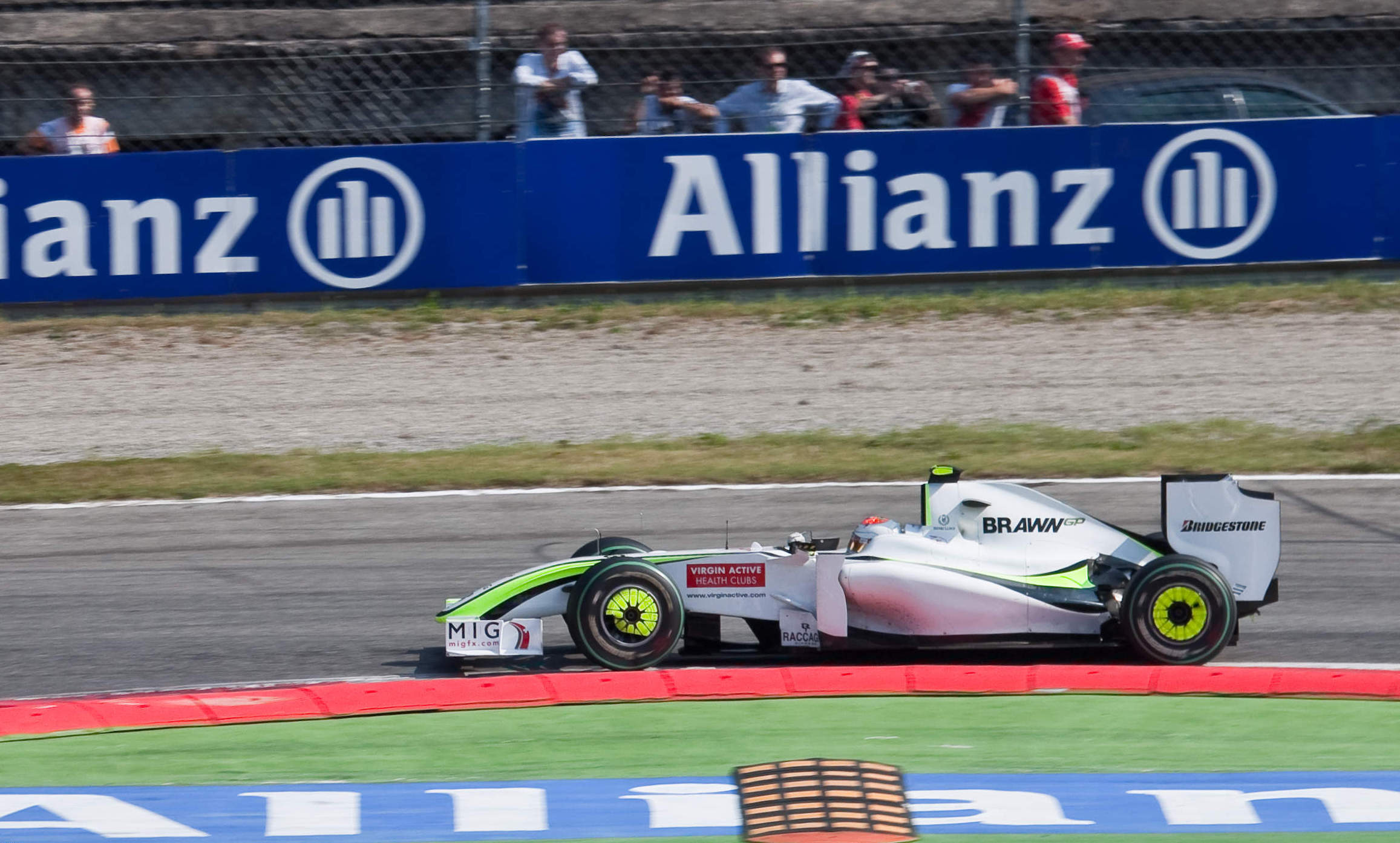 Rubens Barrichello driving for Brawn GP at the 2009 Italian Grand Prix.